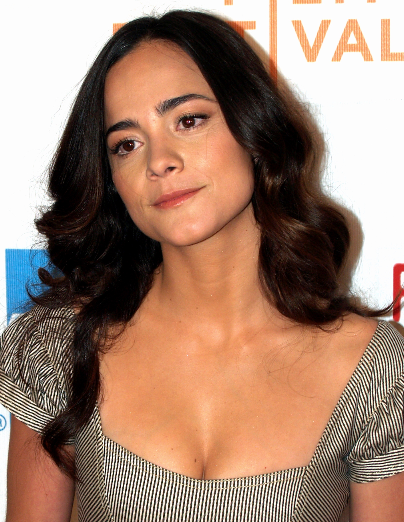 Alice Braga at the premiere of Redbelt at the 2008 Tribeca Film Festival.